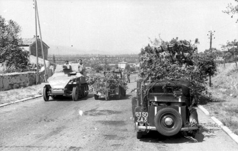 Most probably SdKfz.250/8 Neu close support vehicle